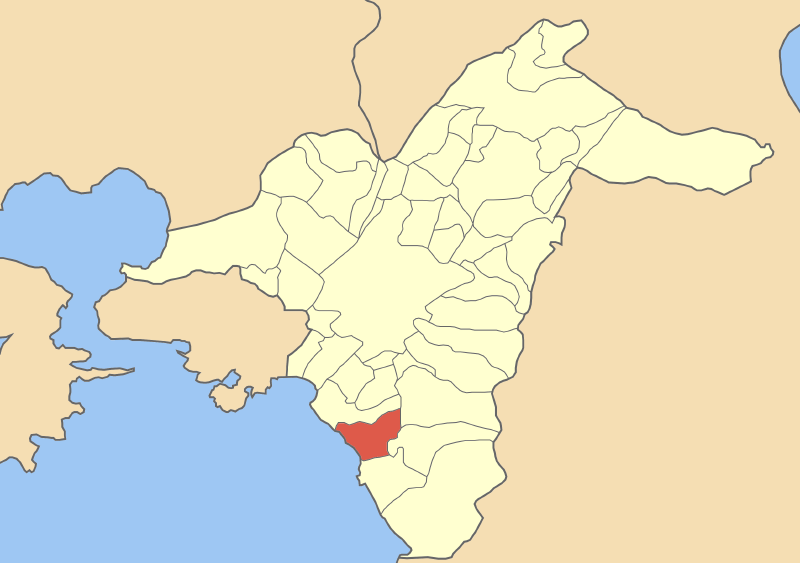 Locator map of Alimos municipality (Δήμος Αλίμου) in Athina Nomarchia (Νομαρχία Αθηνών) in Greece.